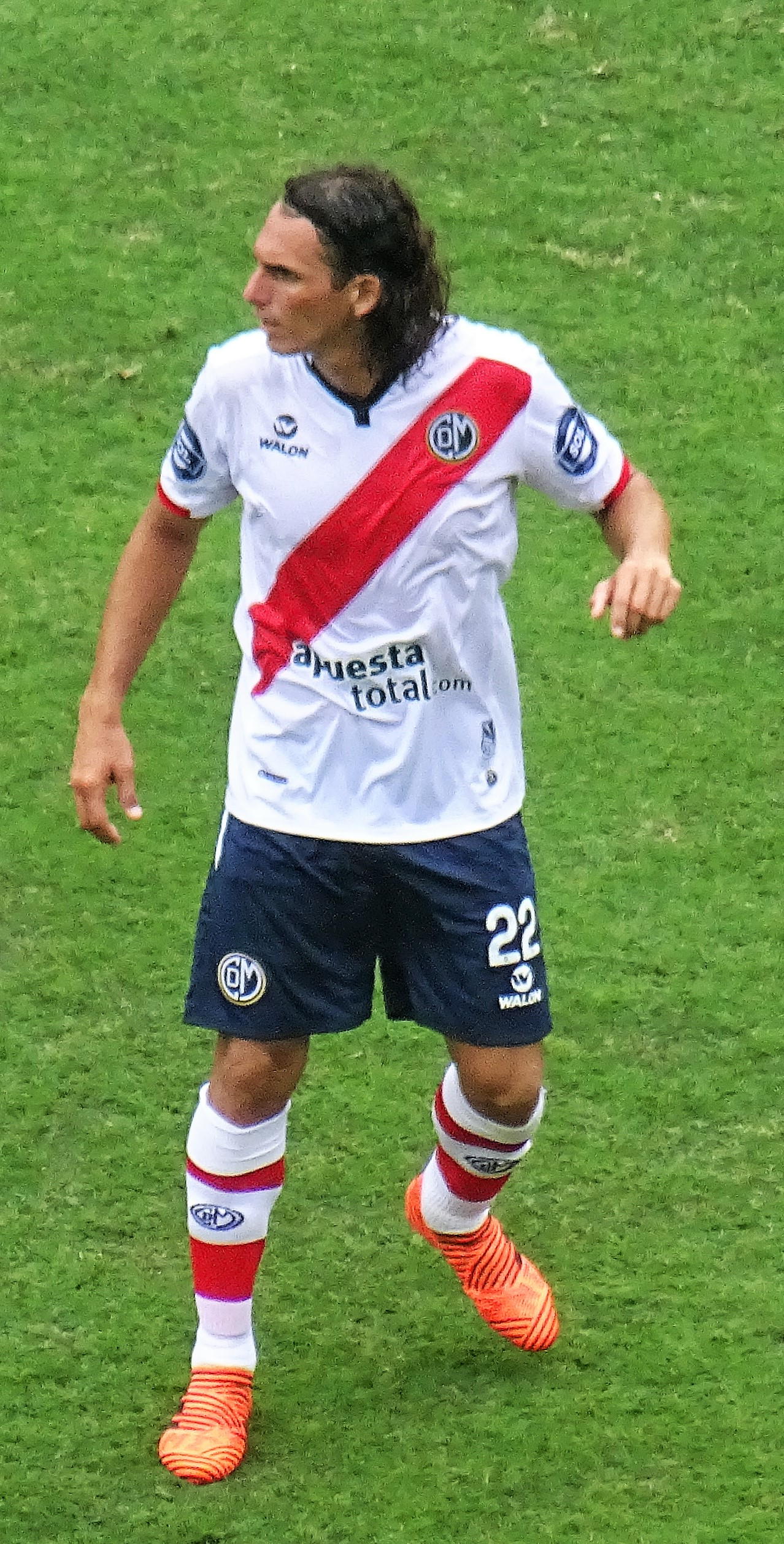 José Carlos Fernández (Trujillo, 1983) Peruvian footballer. National Stadium, Peru 2018